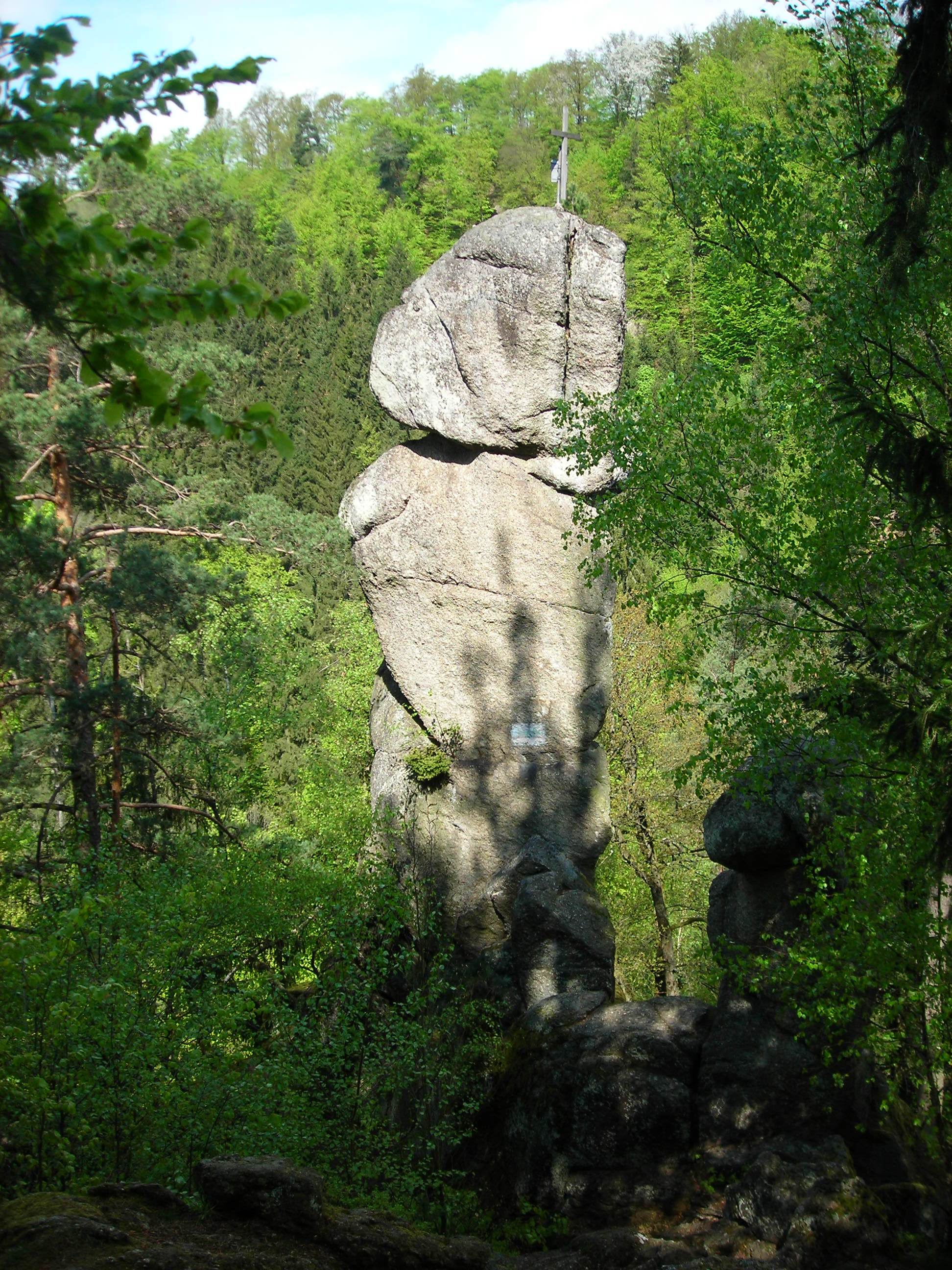 Kerzenstein im Frühling